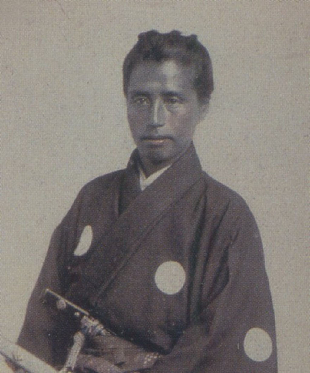 Kaishū Katsu (1823–99)